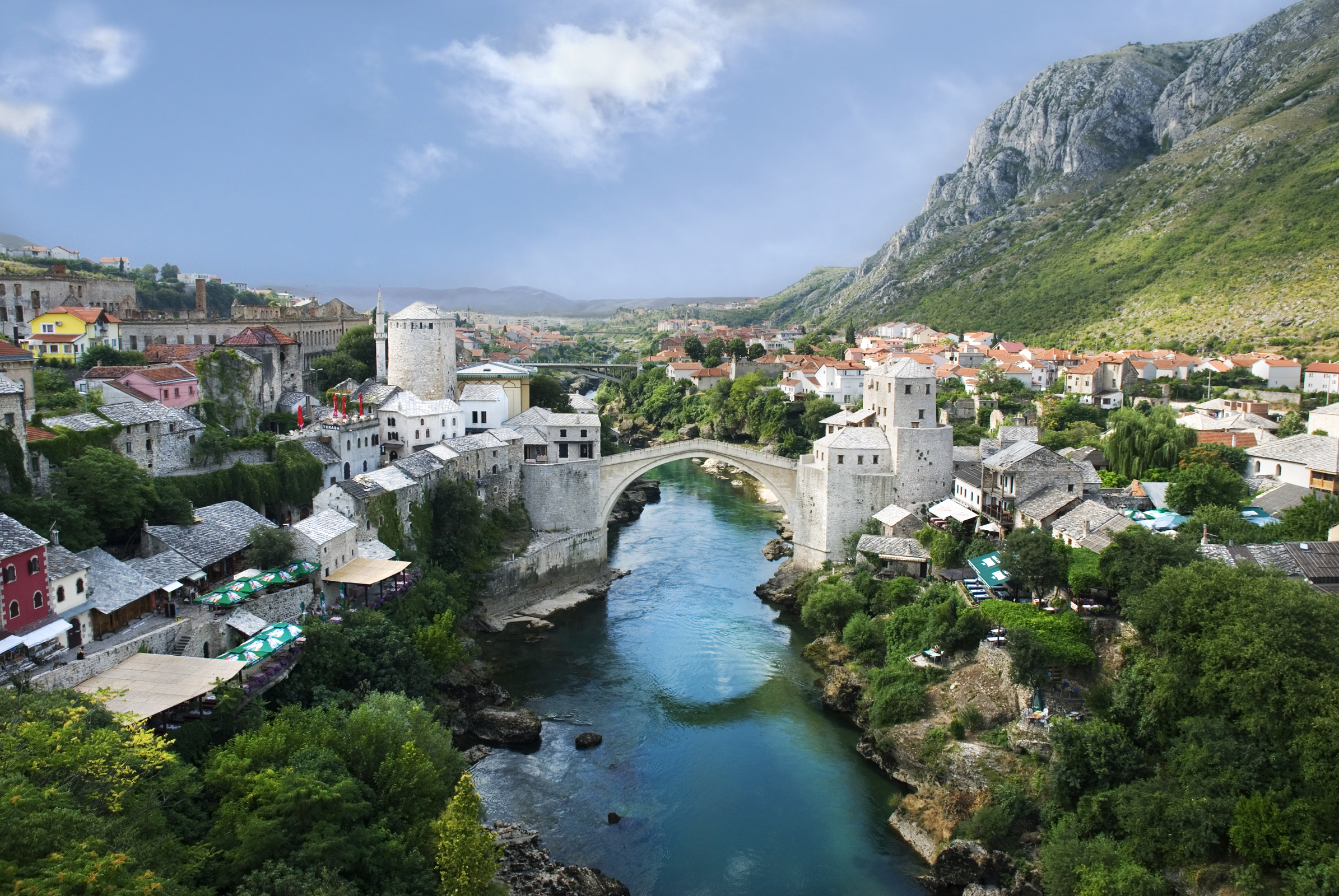 Mostar - Old Town panorama. The picture was taken from the minaret of Koski Mehmed Pasha Mosque , which is just opposite Stari Most ("The Old Bridge") looking on the same part of the Neretva river.